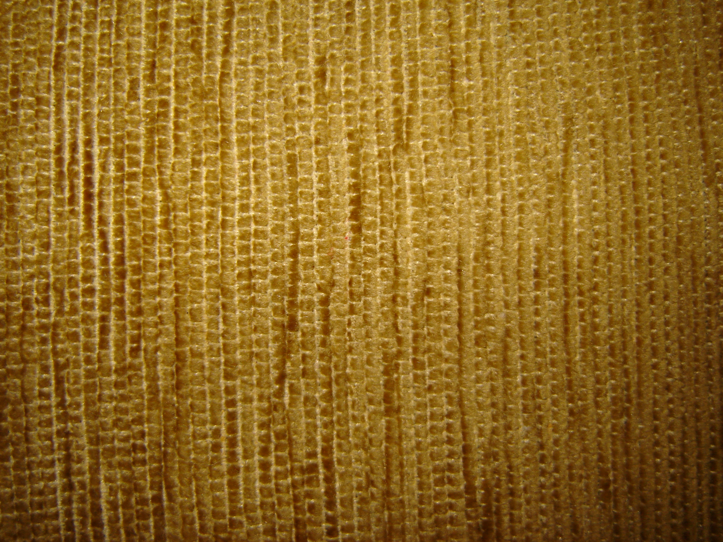 Chenille fabric on a sofa